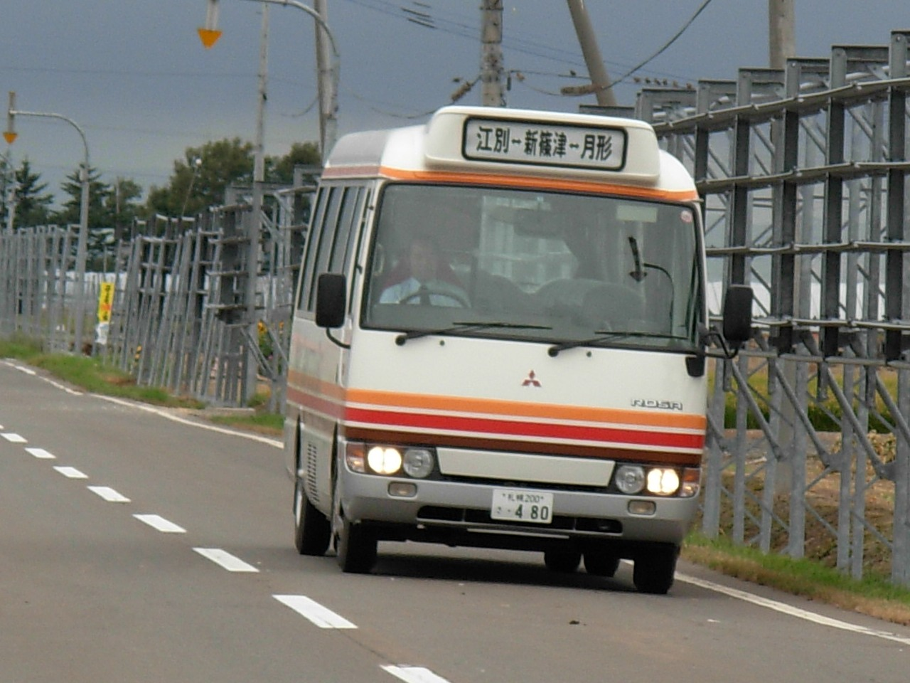 Bus of Shin-shinotsu village bus service